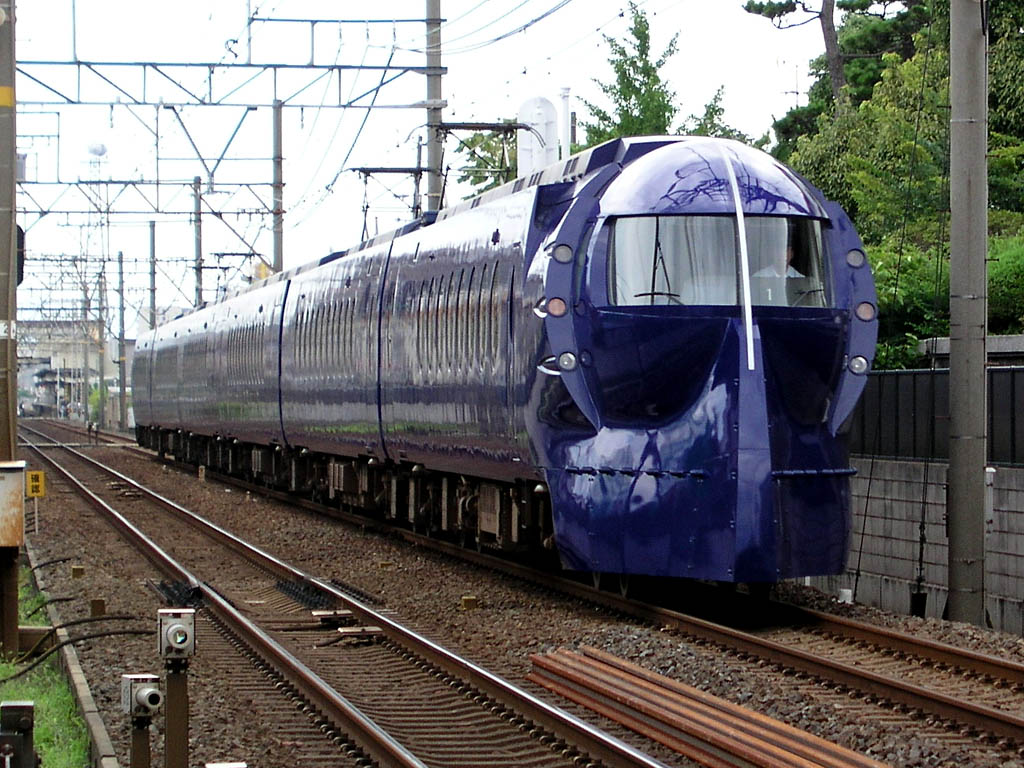 Nankai Electric Railway type 50000 for Rapi:t